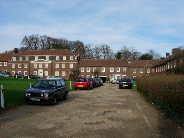 Glebe Court in Highfield, Hampshire